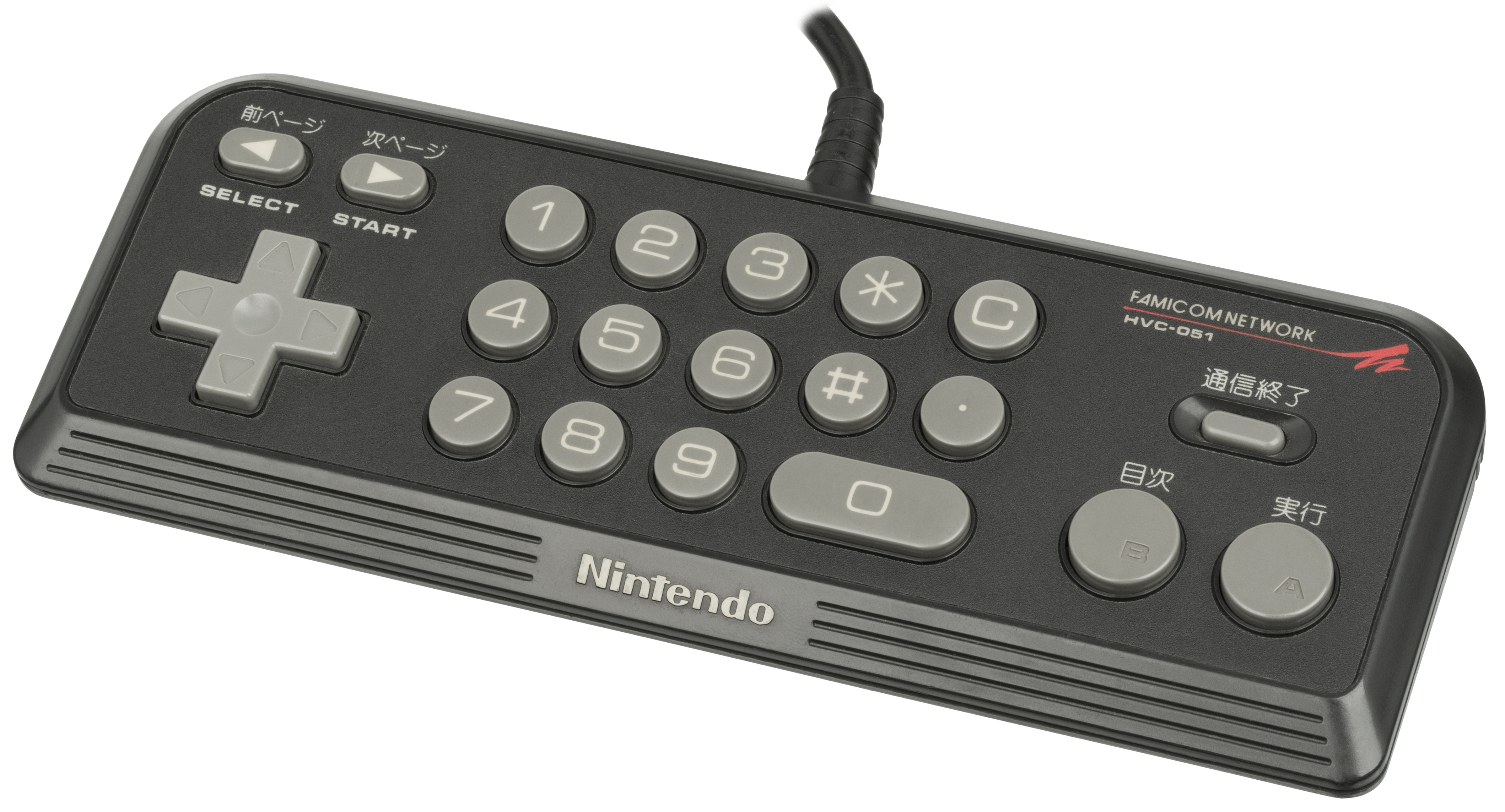 The controller that came bundled with the Nintendo Famicom's official modem add-on, model number HVC-051.